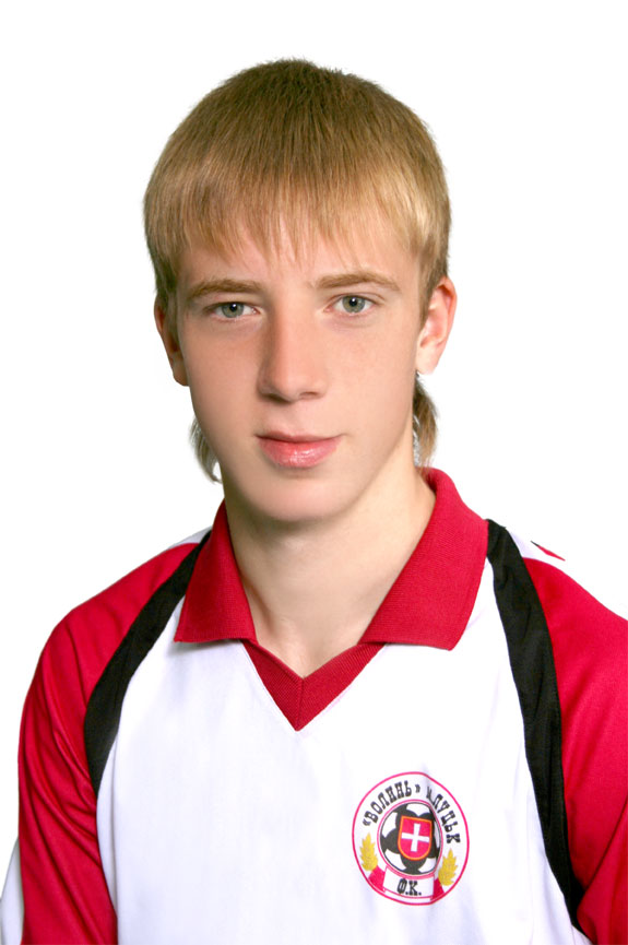 Dmytro Yeremenko, midfielder of FC Volyn Lutsk